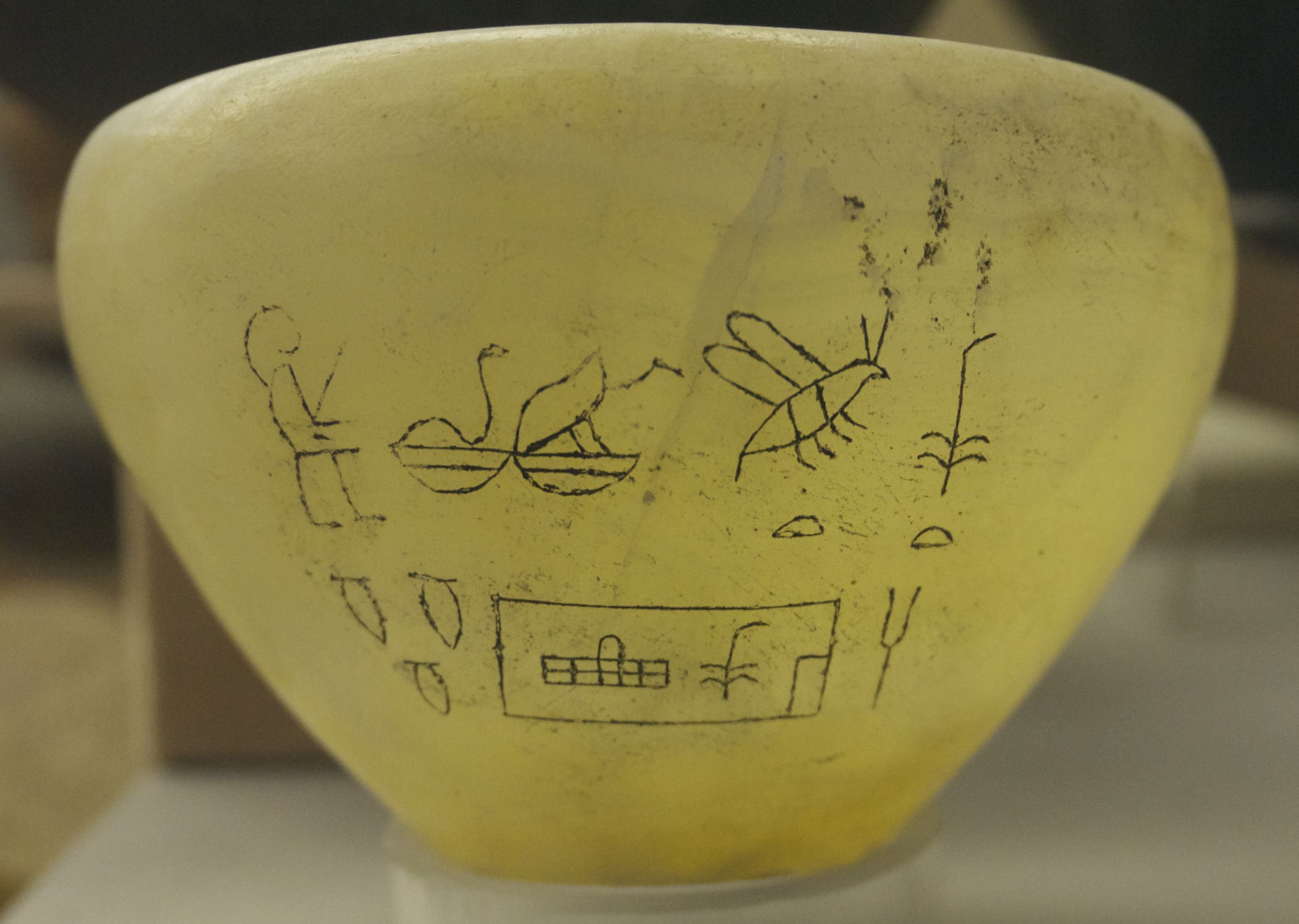 Alabaster vase inscribed with the name of Semerkhet, penultimate pharaoh of the First dynasty of Egypt, c. 2920 BC. The inscription reads King Iry-Nebty visits the palace-of-the-pleased-king, oil jars for it, National Archaeological Museum, St Germain en Laye